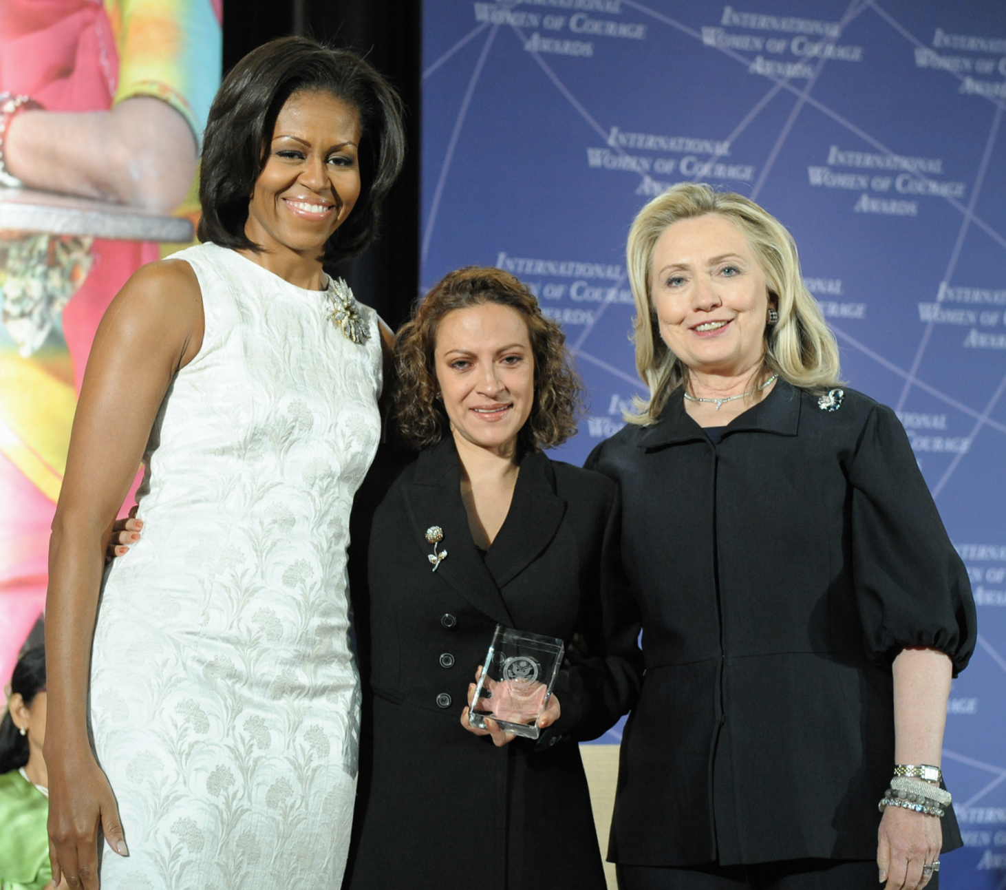 U.S. Secretary of State Hillary Rodham Clinton, right; and First Lady Michelle Obama, left; pose for a photo with 2012 International Women of Courage (IWOC) Award Winner Jineth Bedoya Lima of Colombia, at the U.S. Department of State in Washington, D.C., on March 8, 2012. [State Department photo/ Public Domain]